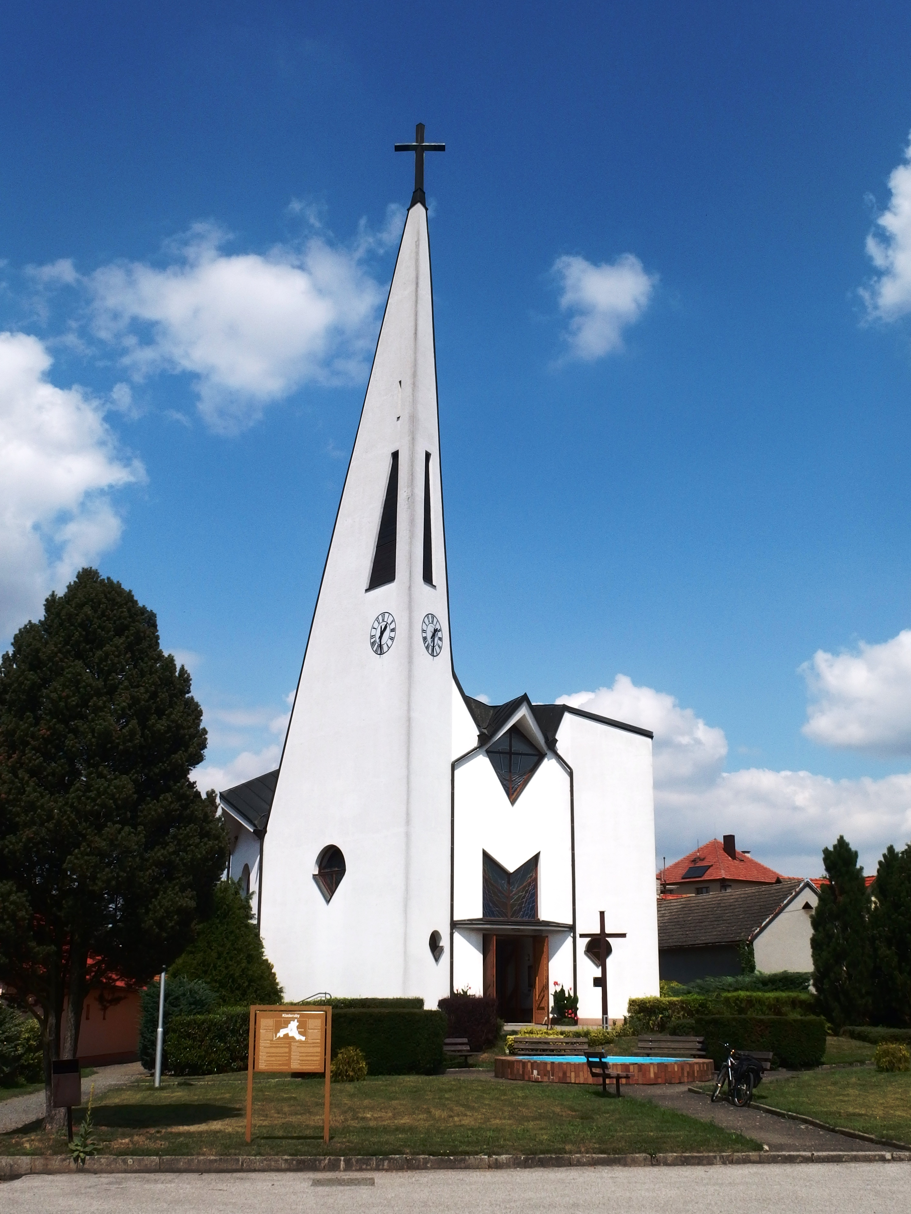 Kladeruby, Vsetín District, Czech Republic.